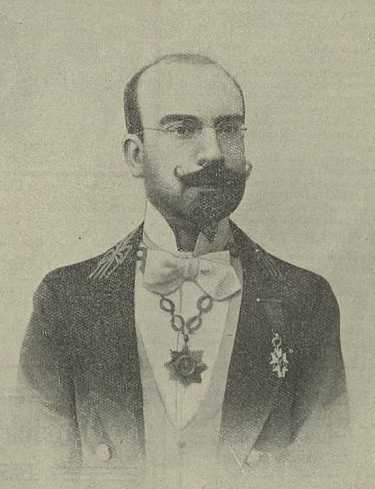 António Cabreira (1868-1953)